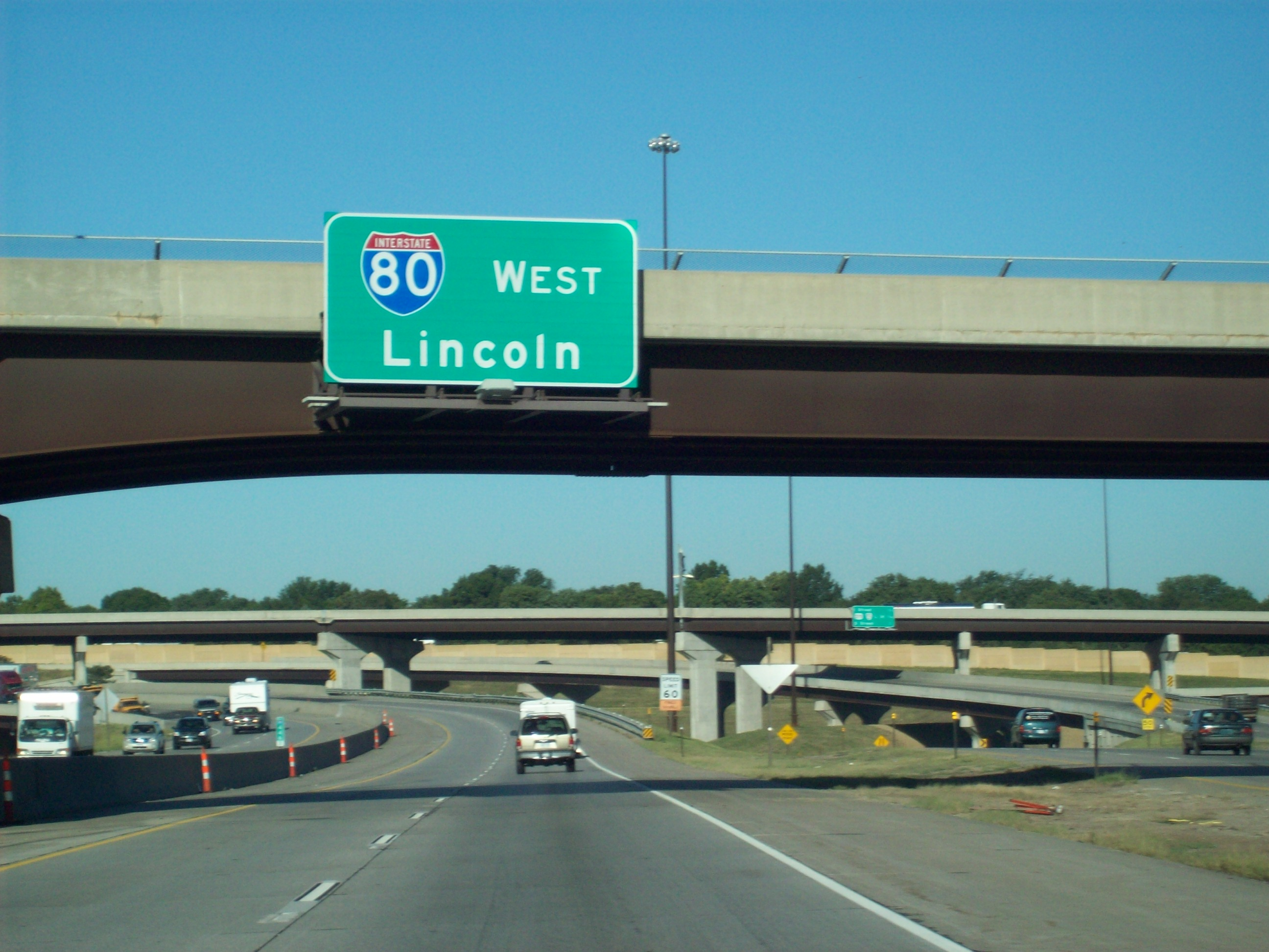 Interstate Signage